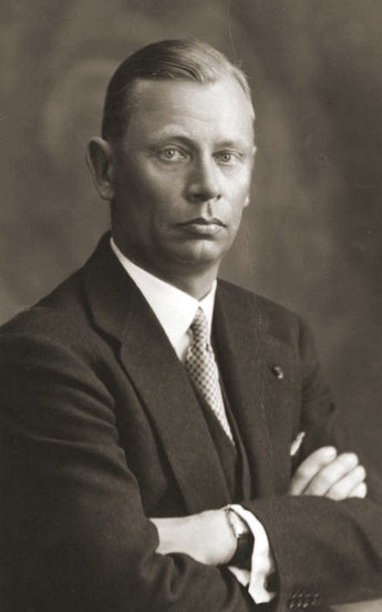 Juliusz Łukasiewicz, Polish diplomat in 1930-ties the Ambassador of the Republic of Poland to Soviet Union and then to France ( till 1939)